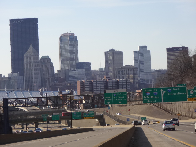 Pittsburgh (view from the North Hills)